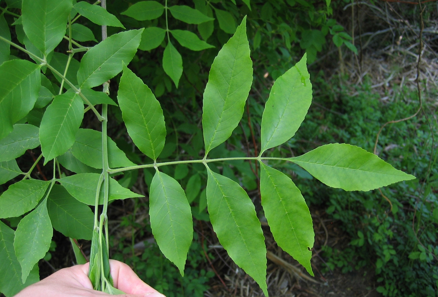 Fraxinus pennsylvanica leaf and shoot